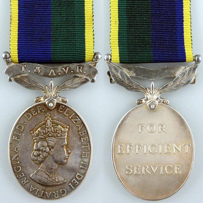 The Territorial and Army Volunteer Reserve version of the Efficiency Medal